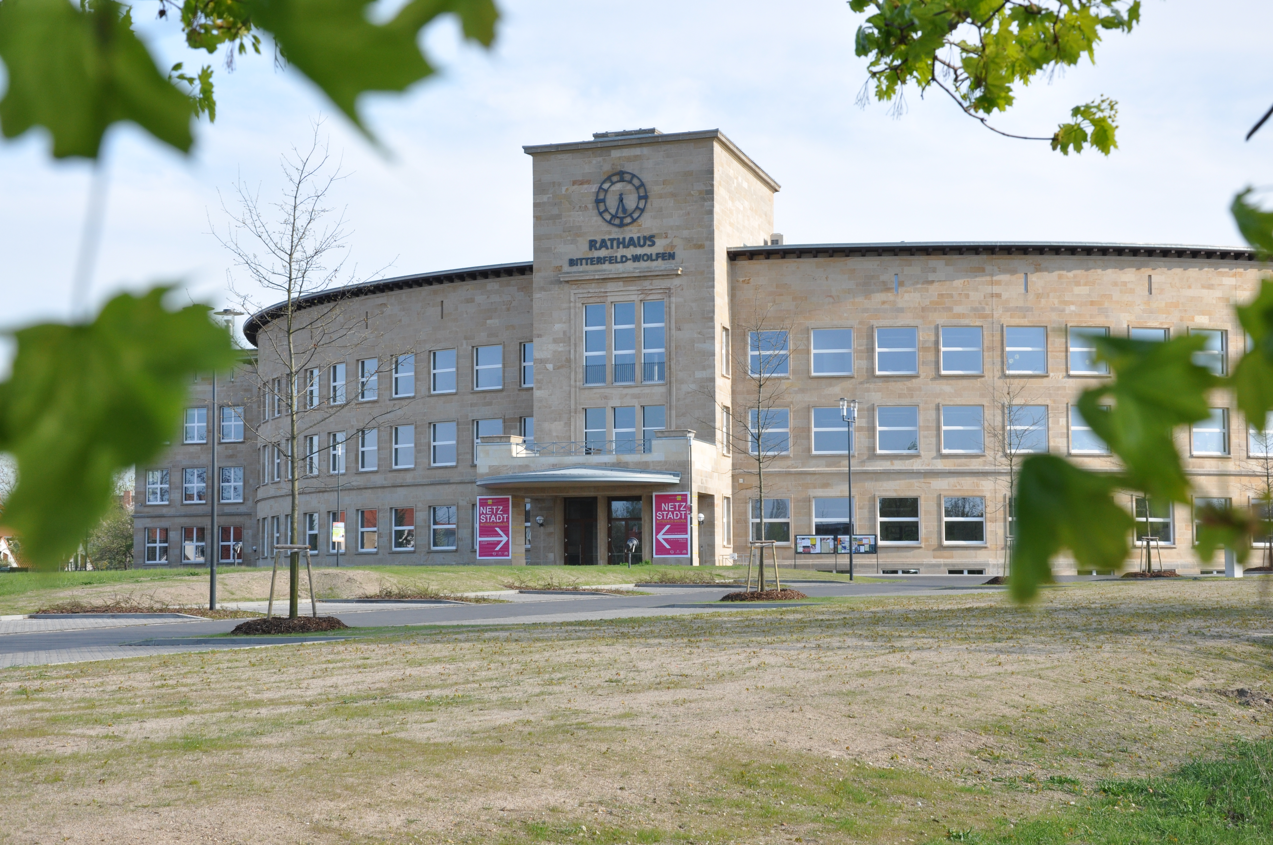 townhall of Bitterfeld-Wolfen